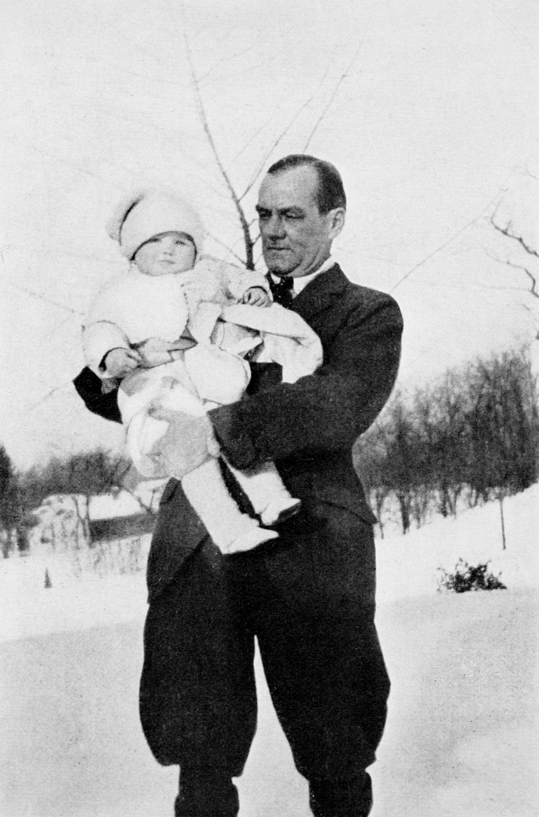 American writer Richard Harding Davis with daughter Hope (born 1914)